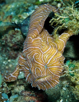 Psychedelic frogfish (Histiophryne psychedelica). For a higher resolution, contact David Hall at [1].